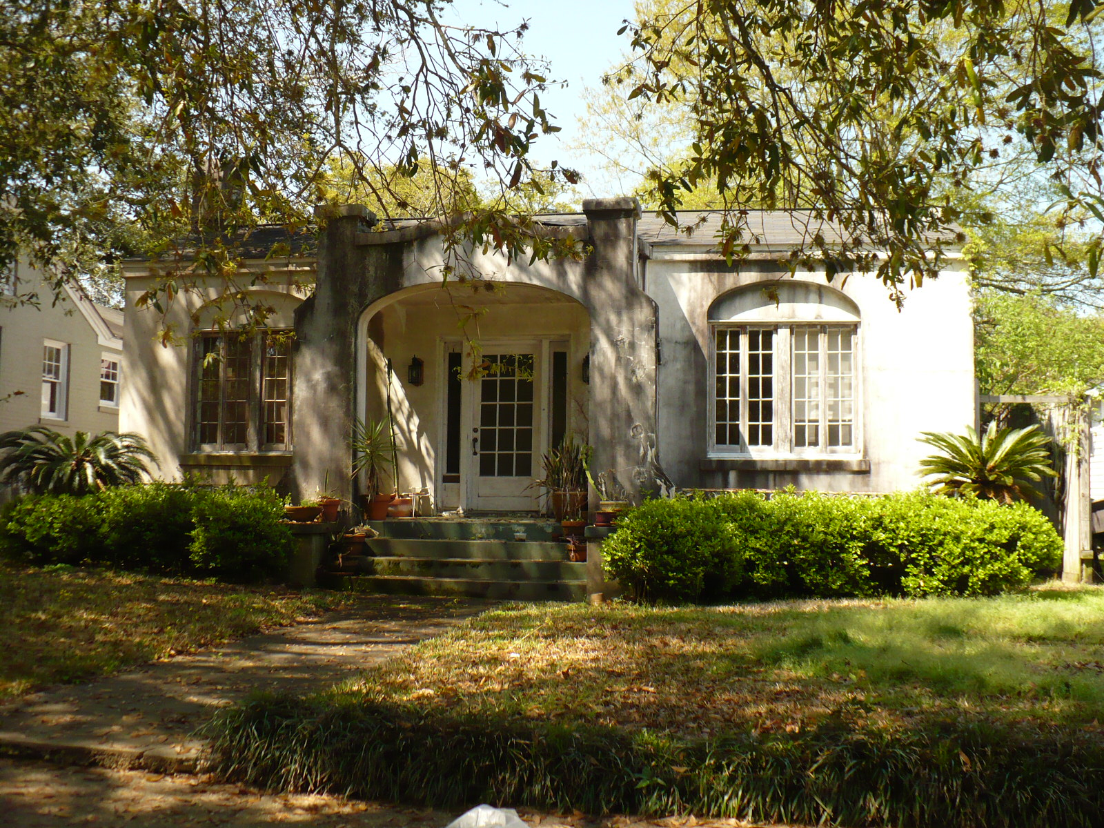 107 Florence Place in Mobile, Alabama. A modest example of Spanish Colonial Revival architecture of the Central Gulf Coast of the United States. Individually listed on the National Register of Historic Places.